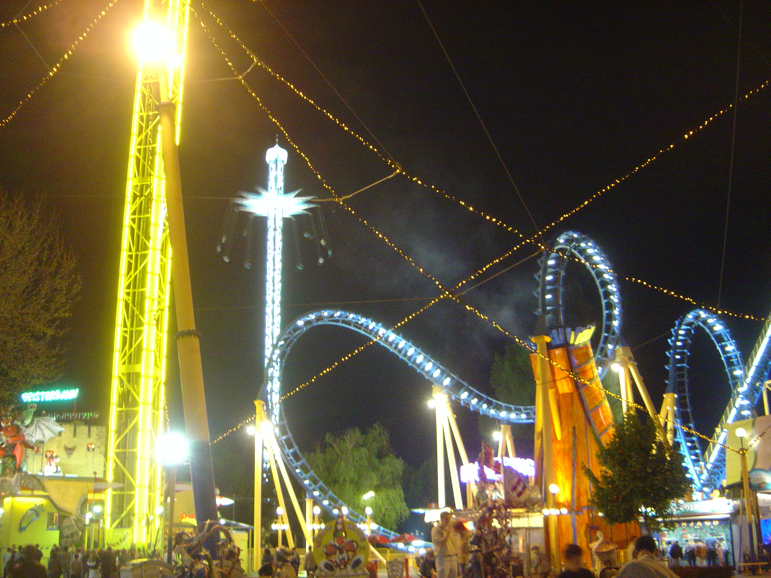 Night view of the Prater in Vienna